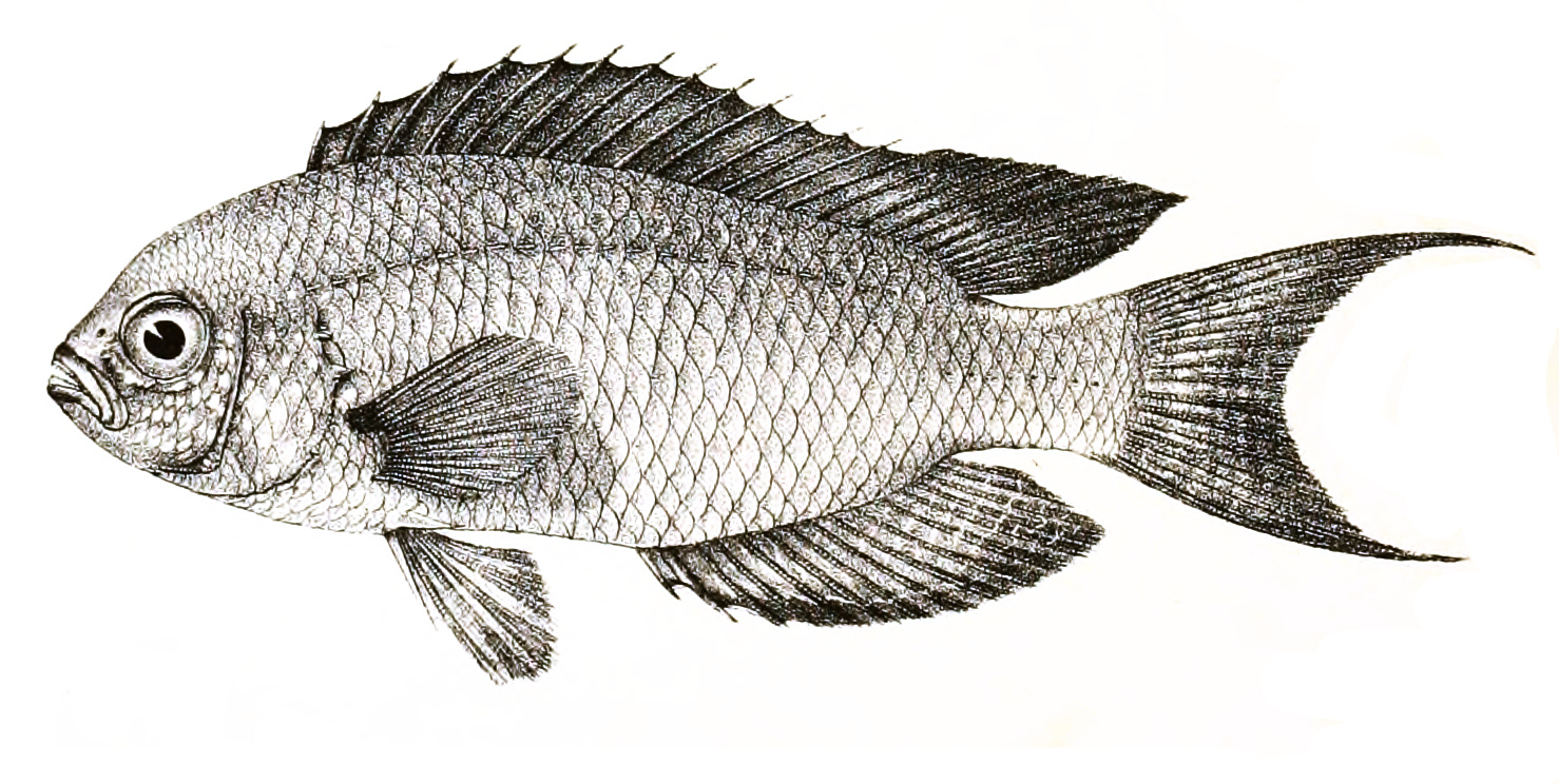 The species names / identity need verification. The original plates showed the fishes facing right and have been flipped here. Pomacentrus jerdoni